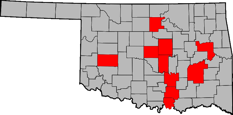 Used blank map of Oklahoma counties and high-lighted counties where Governors of Oklahoma were born.